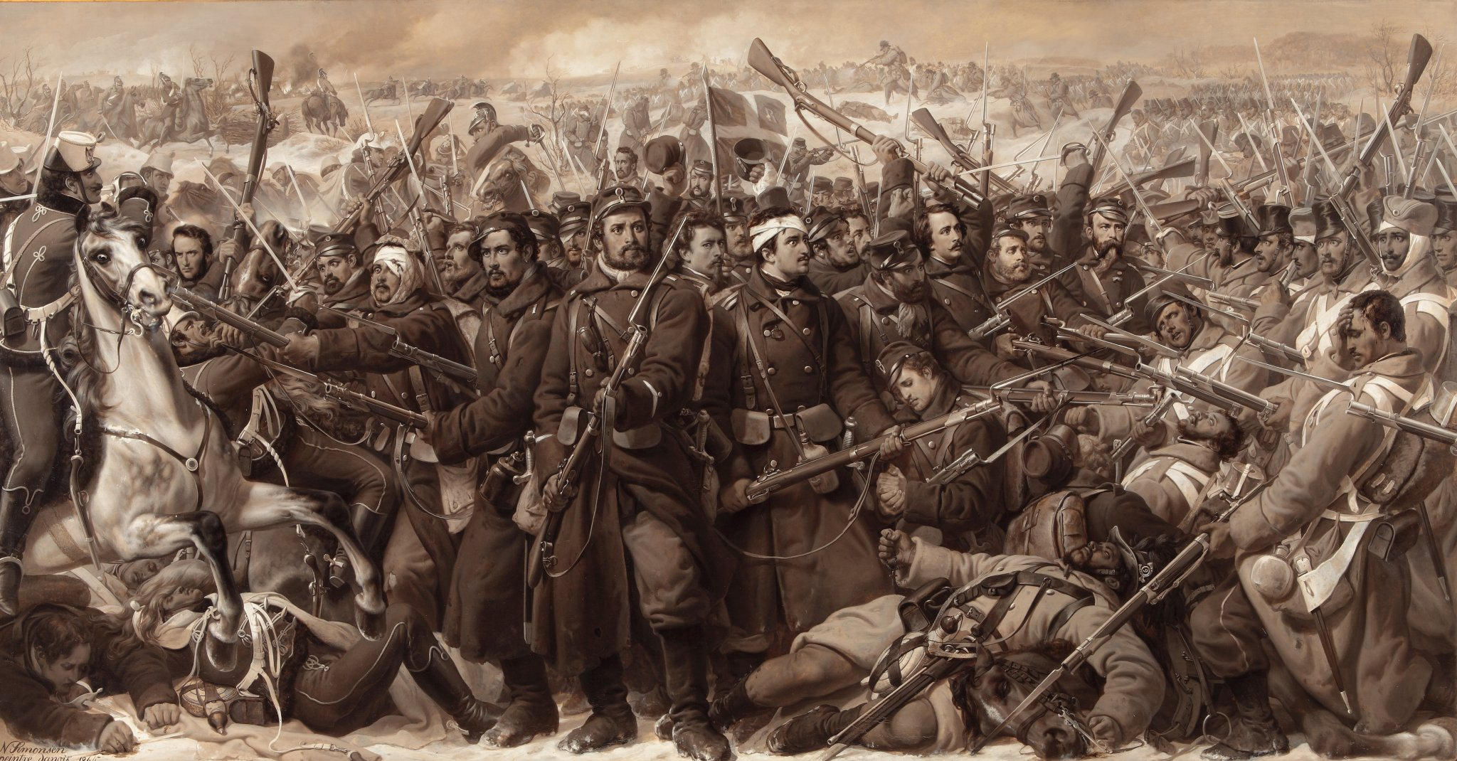 The fighting at Sankelmark in February 1864